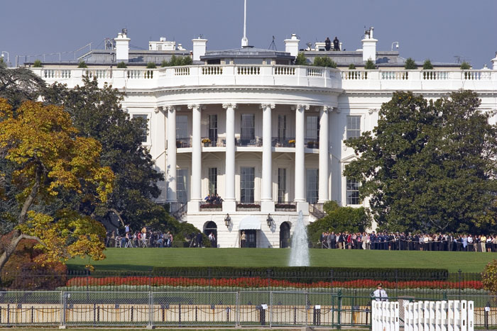 A shot of the white house on election day (they moved everyone way back, so I had a long zoom for this shot)white house